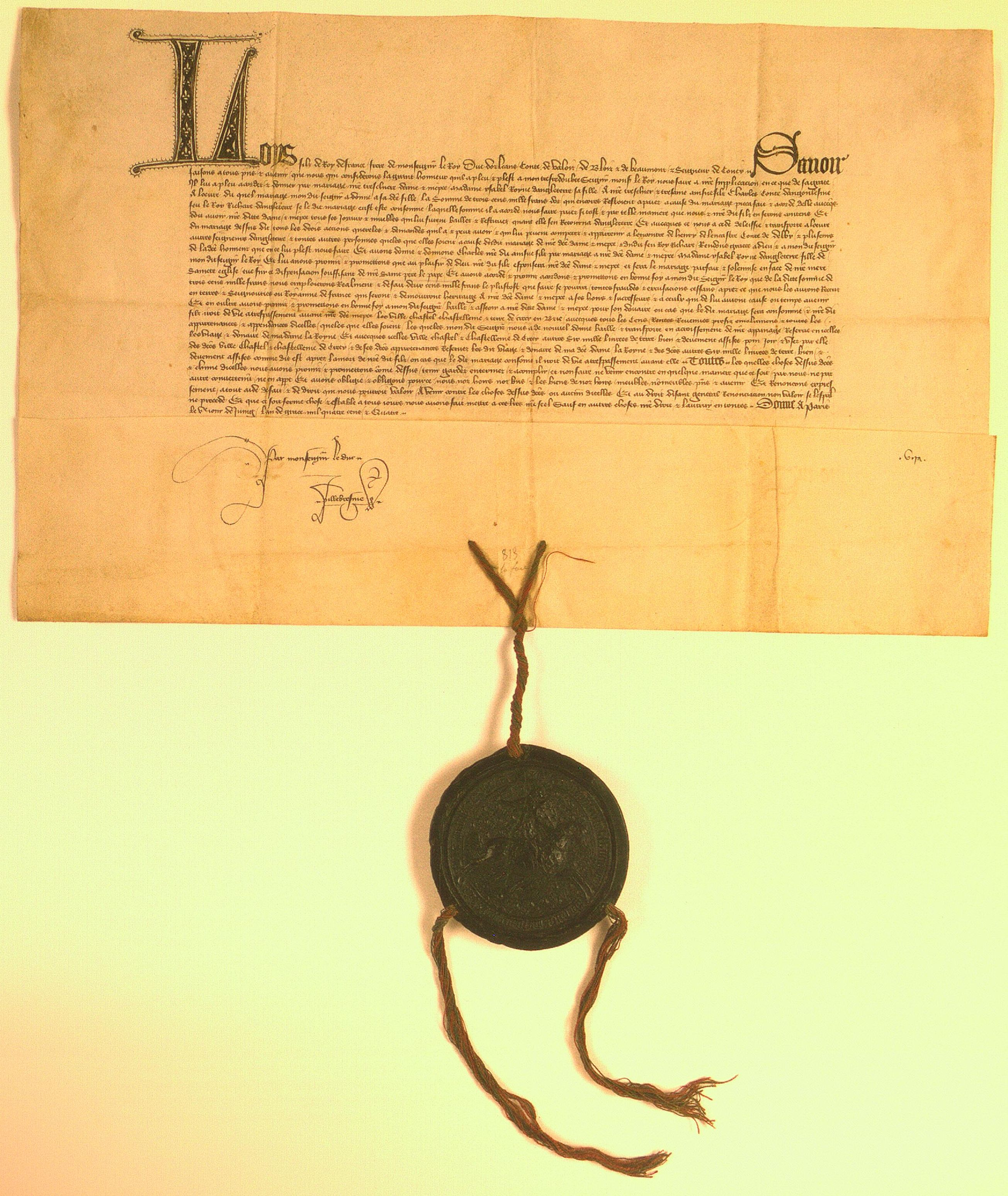 A charter of duke Louis I concerning the marriage of his son Charles with Isabella of Valois